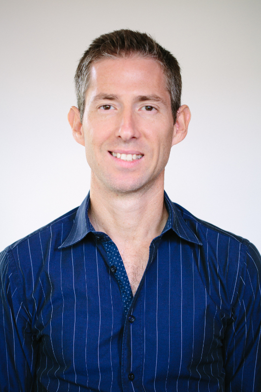 Headshot of Dr. Ted Caplow